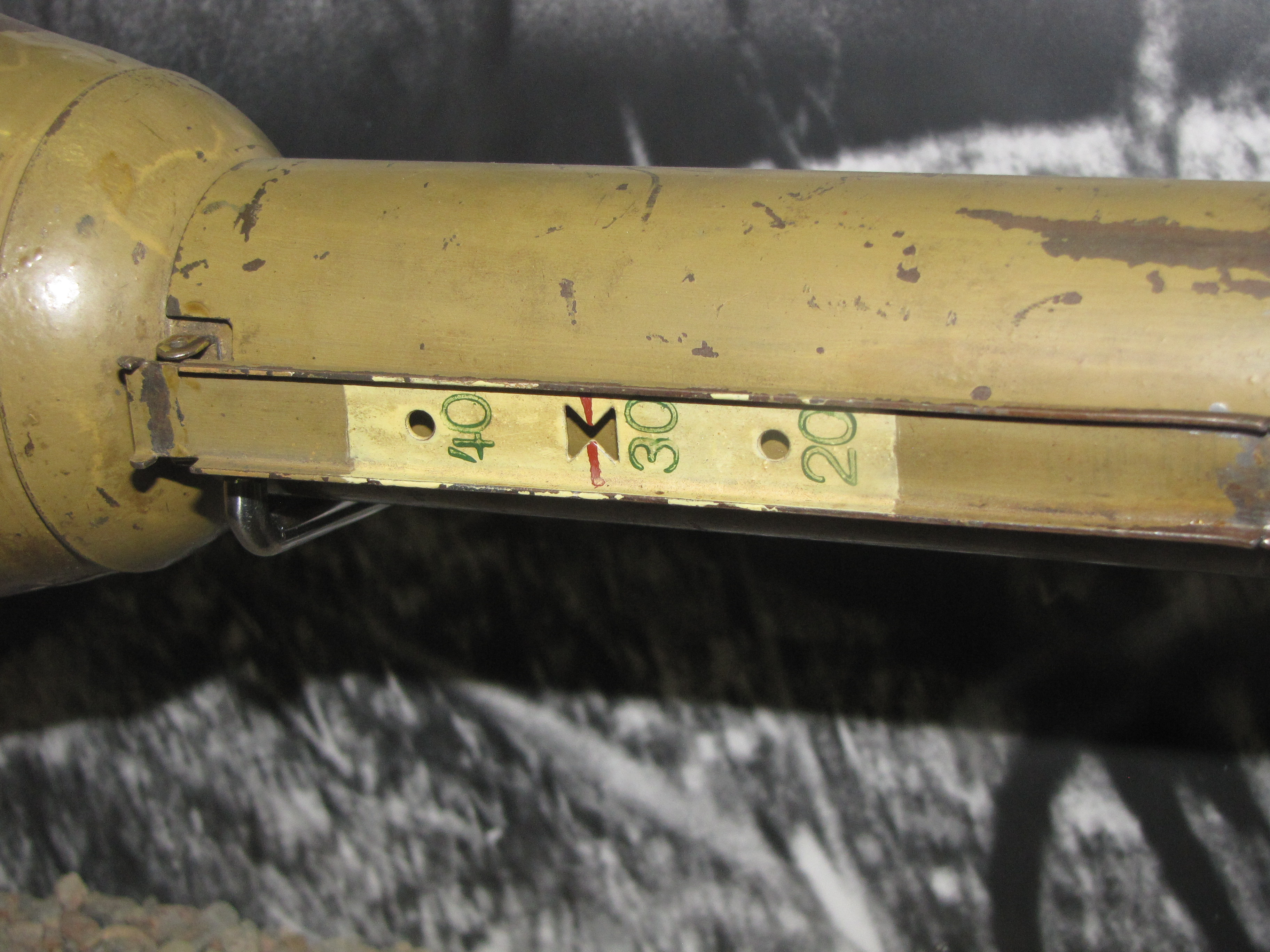 Panzerfaust 30 leaf sight (in folded position). Photographed in Manege Military Museum.